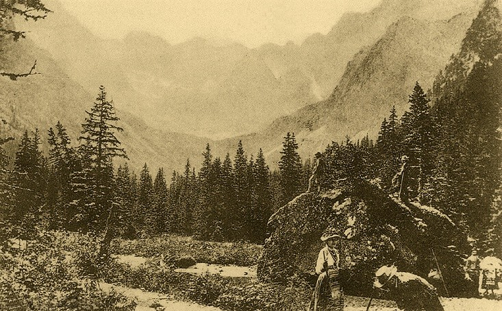 Dolina Białej Wody (en: White Water Valley)